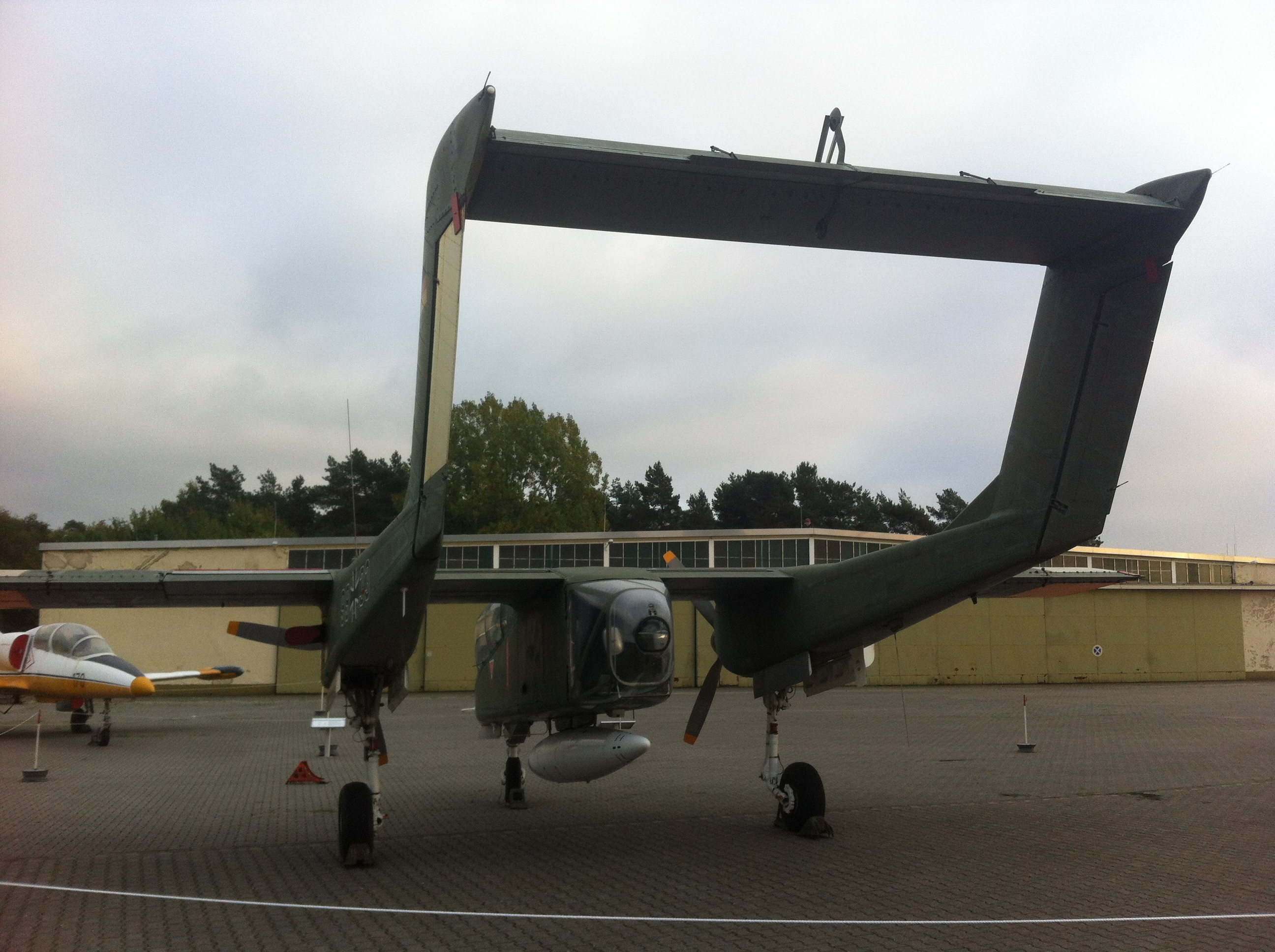 OV-10 Bronco at Gatow